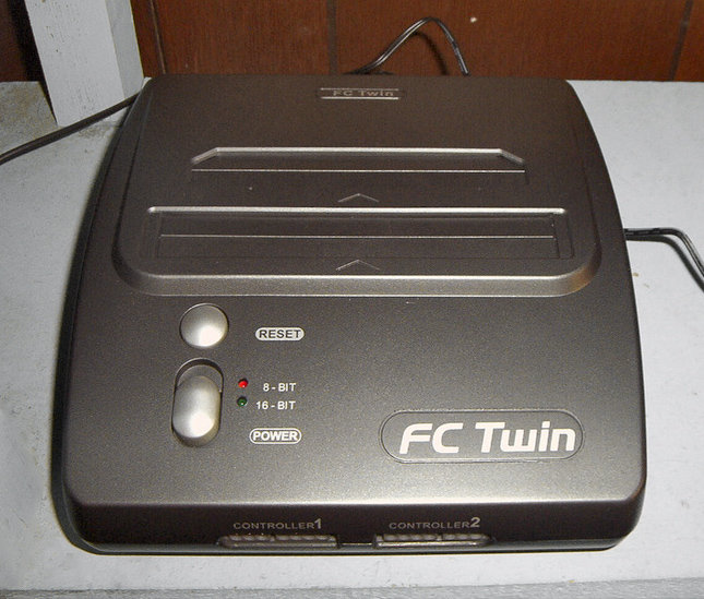 FC Twin Video Game System, from the top. No games.